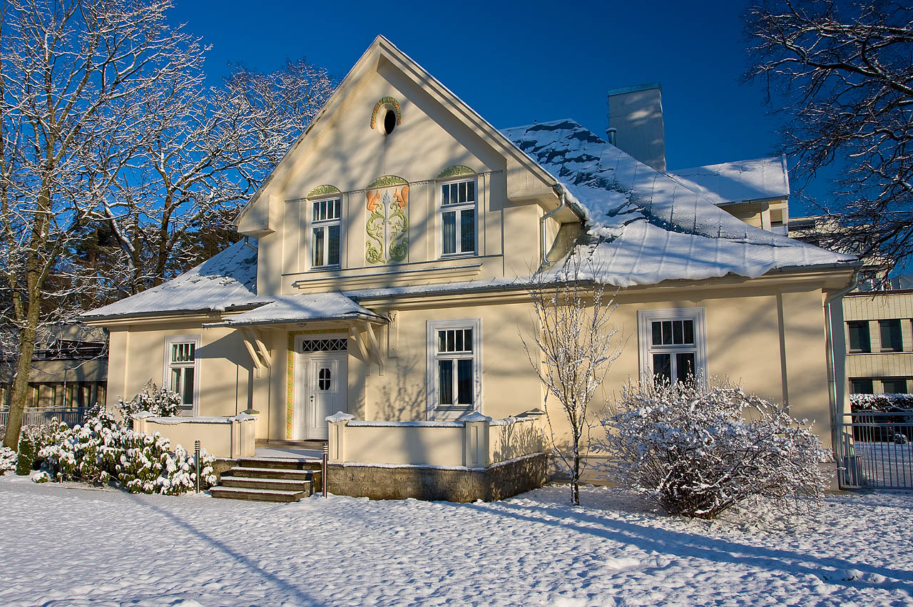 House of Benjamins in Jurmala, Latvia. One of the most impressive buildings in Jurmala. built in 1939.